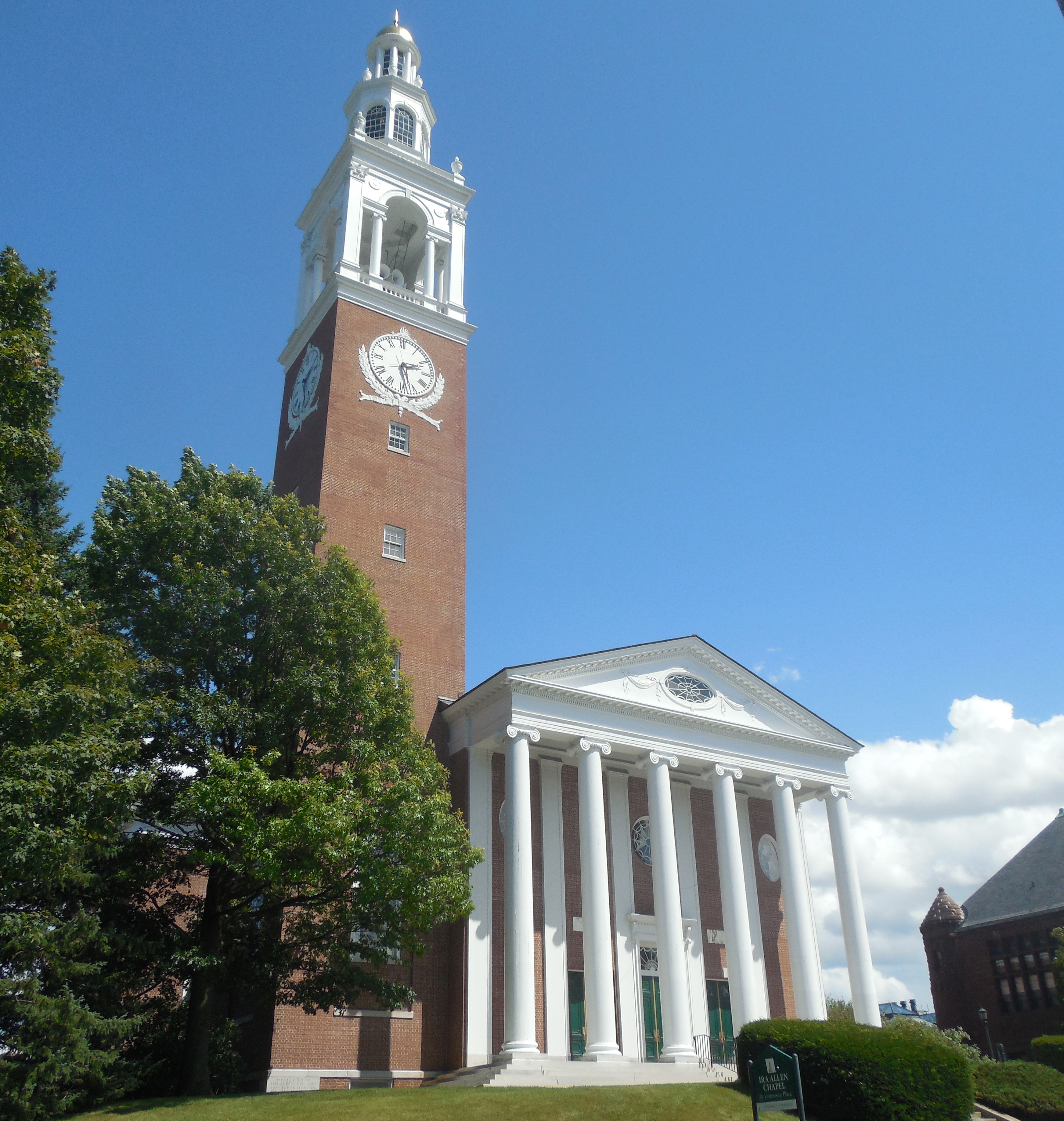 Front view of Ira Allen Chapel, University of Vermont: 1 Aug 2015 (Architects: McKim, Mead & White)